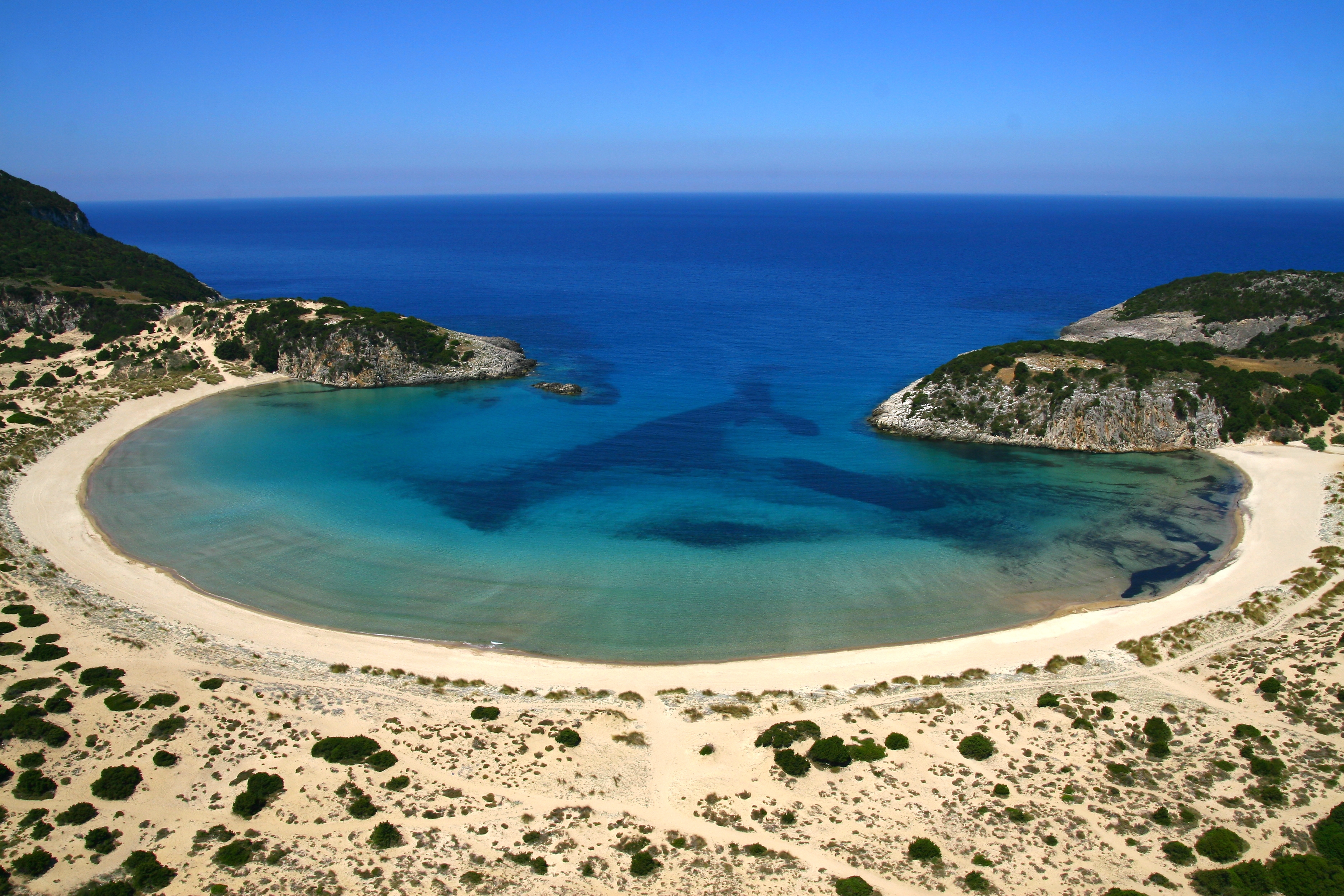 Voidokilia is one of the most famous beaches in Messenia which is part of the Peloponnese, Greece.